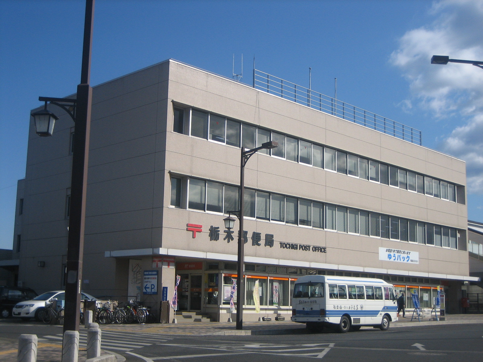 Tochigi post office in Tochigi, Japan